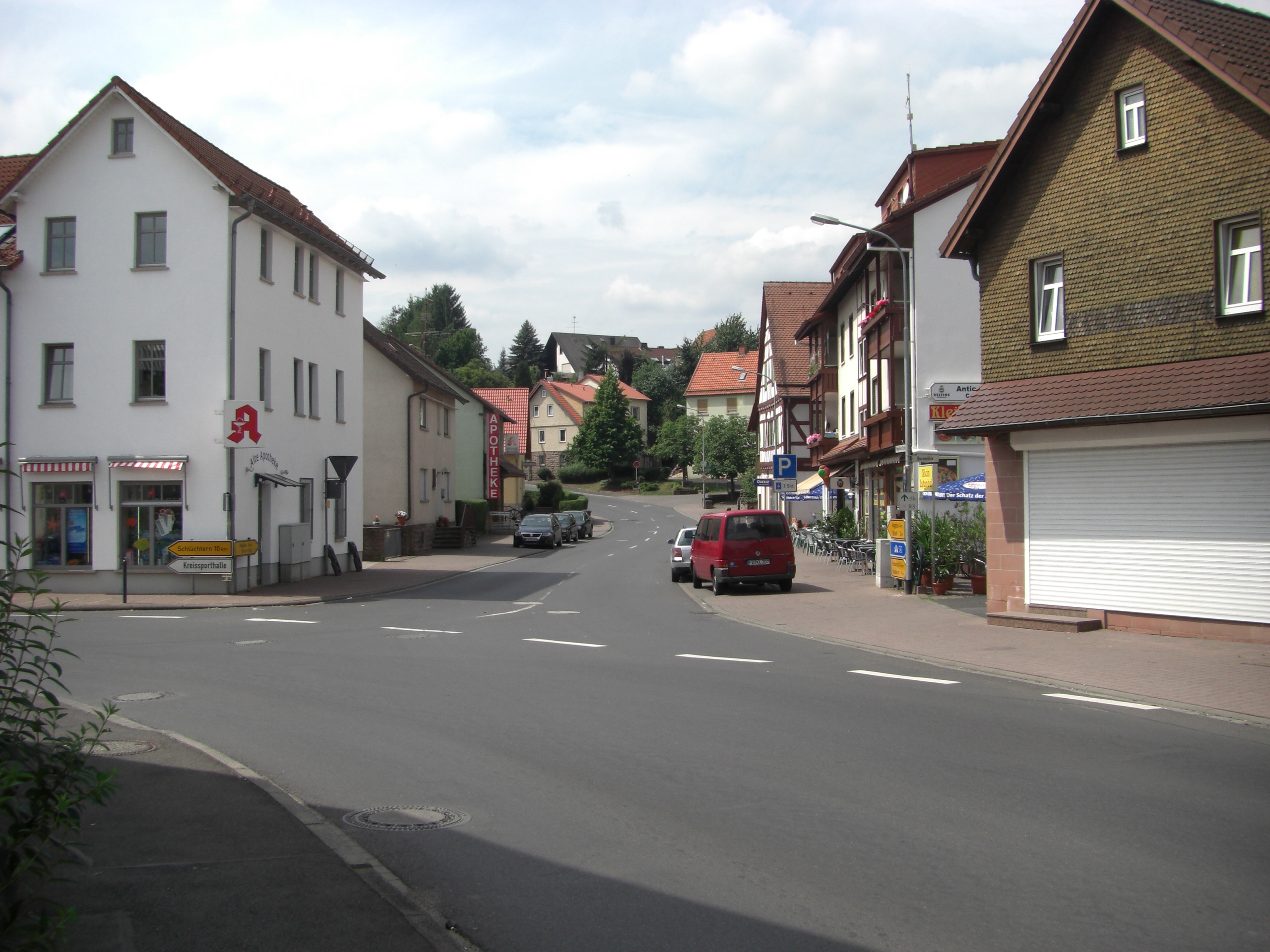 Magdloser Straße (Magdlos road) in Flieden from Schlüchterner Straße (Schlüchtern road).